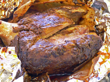 Picture of Mexican mixiote-meat.